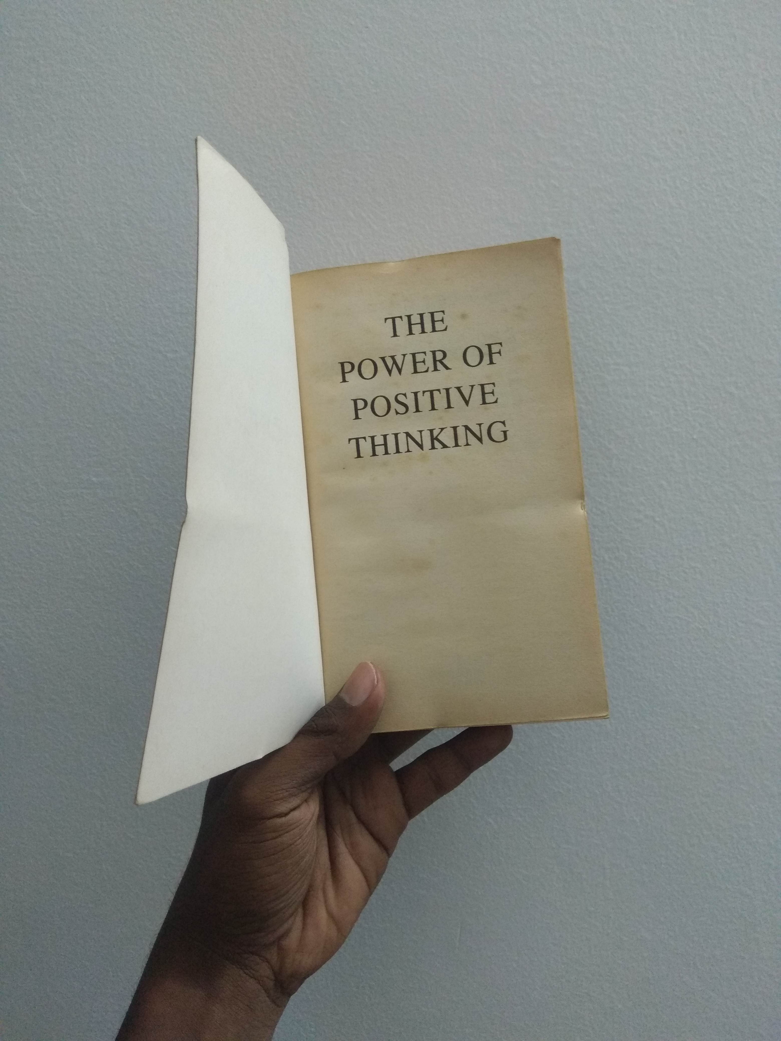 A hard copy of the book "The Power of Positive Thinking"